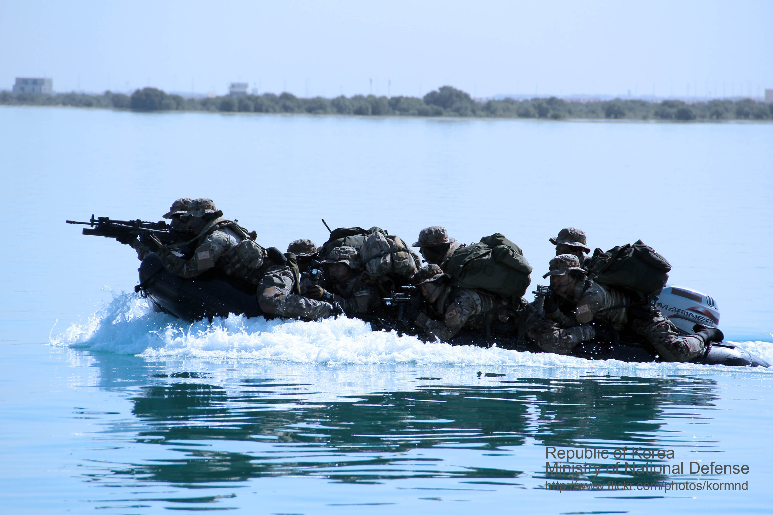 Republic of Korea The Akh Unit in UAE